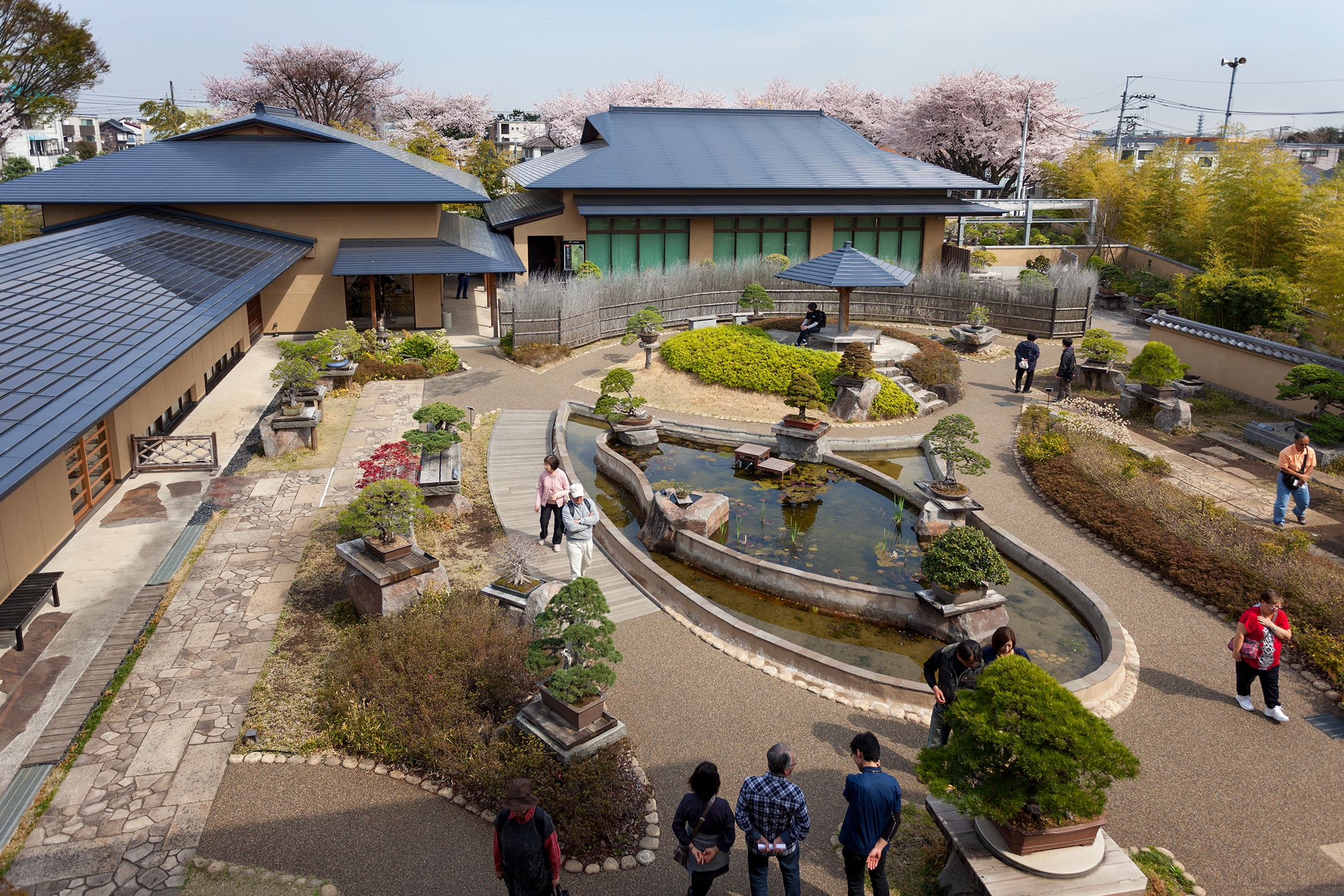 Ōmiya Bonsai Art Museum